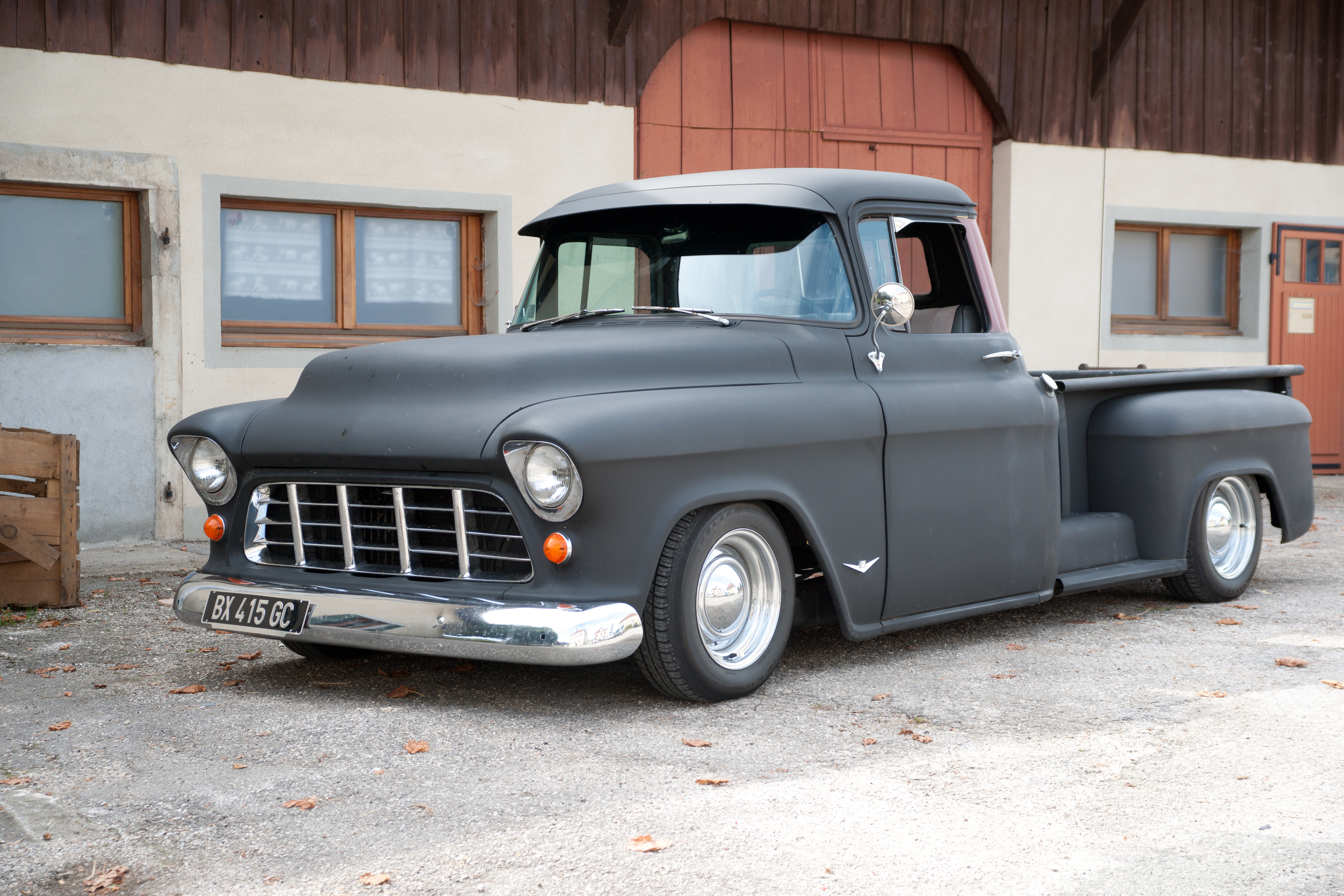 Chevrolet Task Force